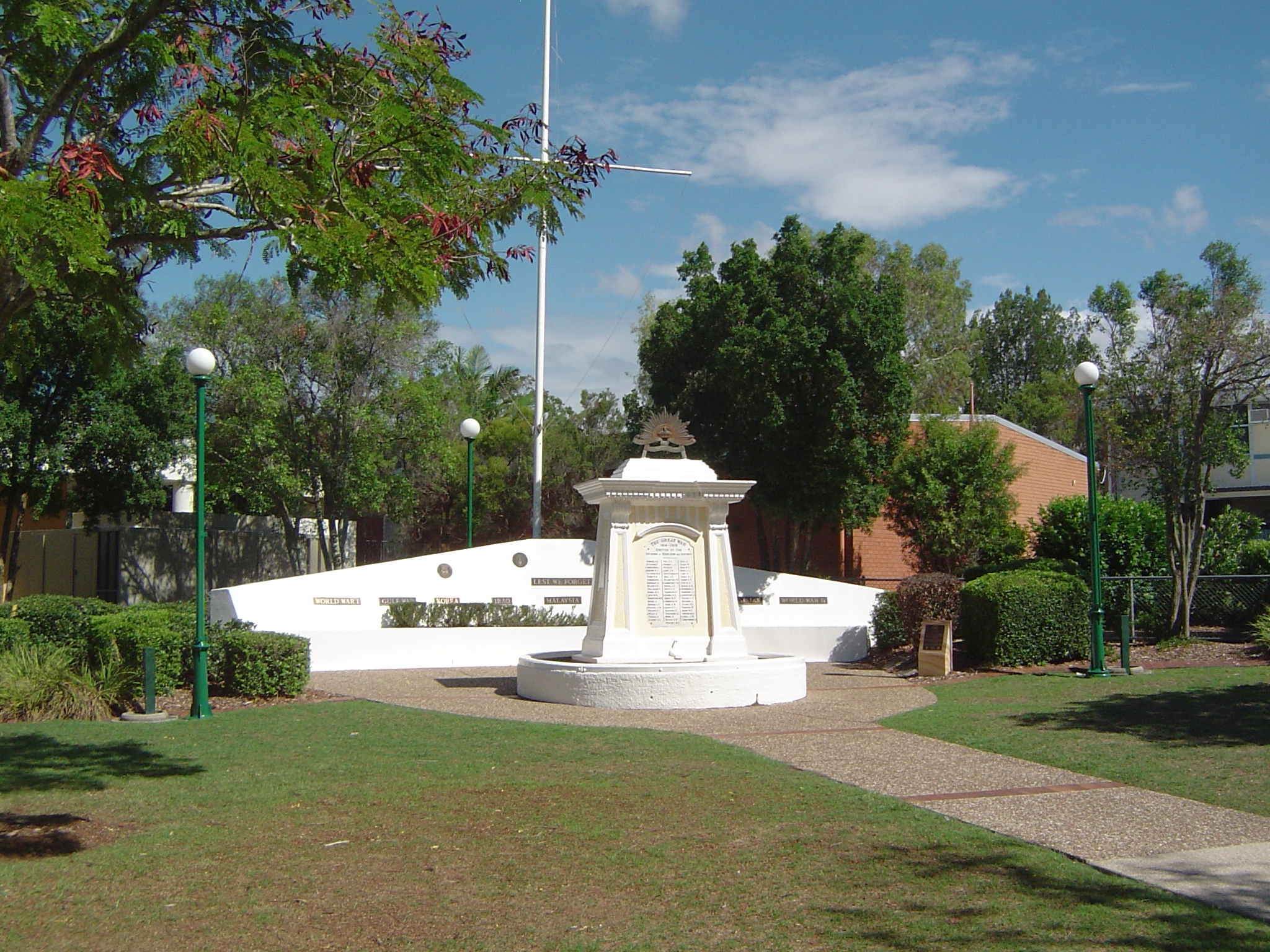 Photo of war memorial at Beenleigh Memorial Park at Beenleigh, Queensland, Australia.